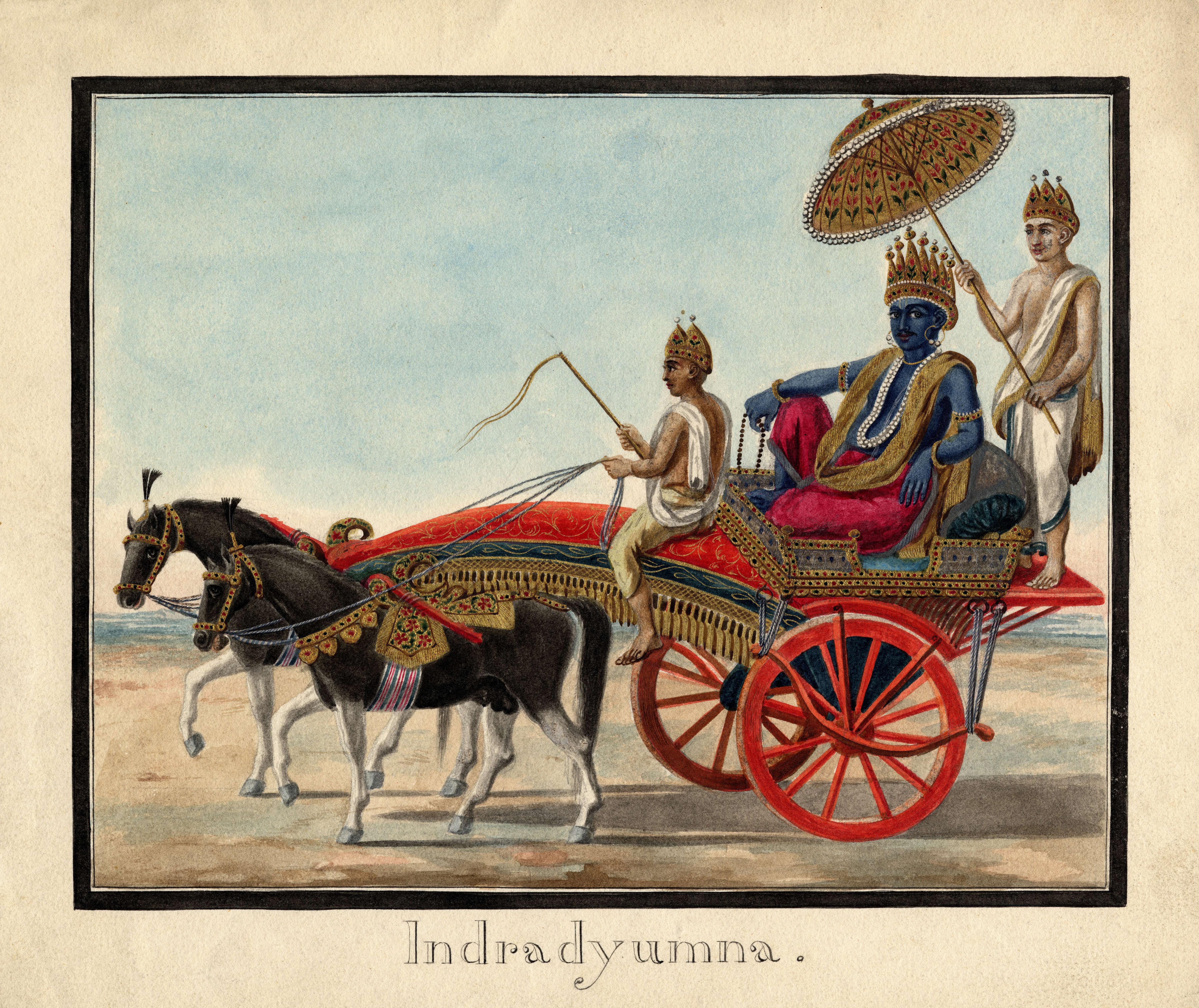 Indradyumna seated in a carriage. He is shown with a golden crown on his head and seated with one knee raised on the back of an ornate carriage, decorated with tassels and gold. He holds a string of beads in his right hand and rests his left arm against the back of the carriage. He wears a pink dhoti and has a floral garland around his neck. Behind him rides an attendant figure that holds an umbrella over his head. The carriage is pulled by two black horses and a driver sits on the shafts of the carriage and holds the reins and a whip. Both attendant figures are crowned and wear dhoti’s and shawls. Indradyumna is shown larger than the attendant figures. In the far distance of the painting are shown hills. The painting is surrounded by a black border. Painted in Patna, Bihar, India Curator's comments According to some Hindu literature, Indradyumna was rescued by Visnu after he was cursed to take the form of an elephant and was attacked by a crocodile. Once Visnu rescued him from the crocodile, the curse was broke and Indradyumna returned to his normal form.